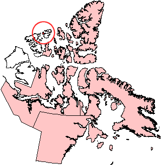 Base image created by Keith Edkins as GFDL, modified by Tim Vasquez.